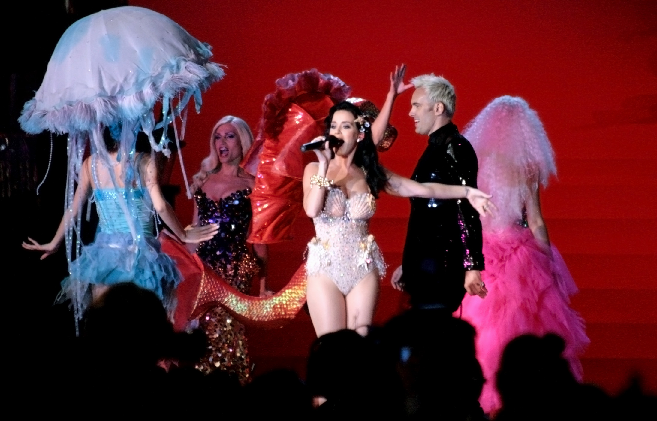 Katy Perry performing during the fashion show of The Blonds (Phillipe and David Blond) at the Life Ball 2009, Rathaus, Vienna.